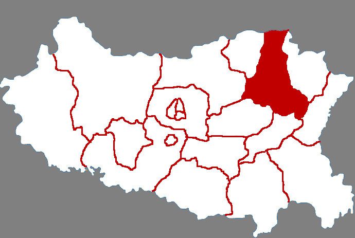 Location of Quzhou county in Handan City, China